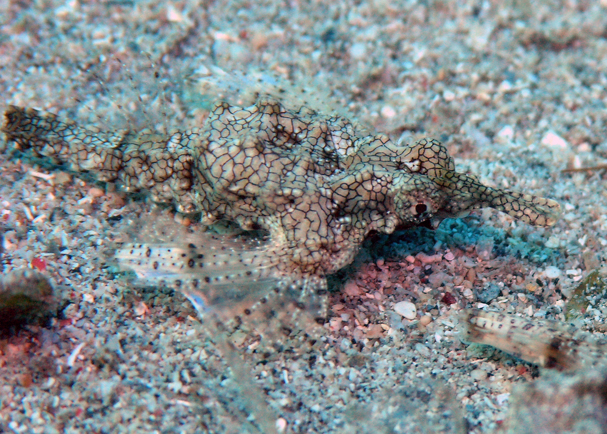 Picture of a dragon sea moth or short dragonfish. Eurypegasus draconis. Taken in Manado, Indonesia.